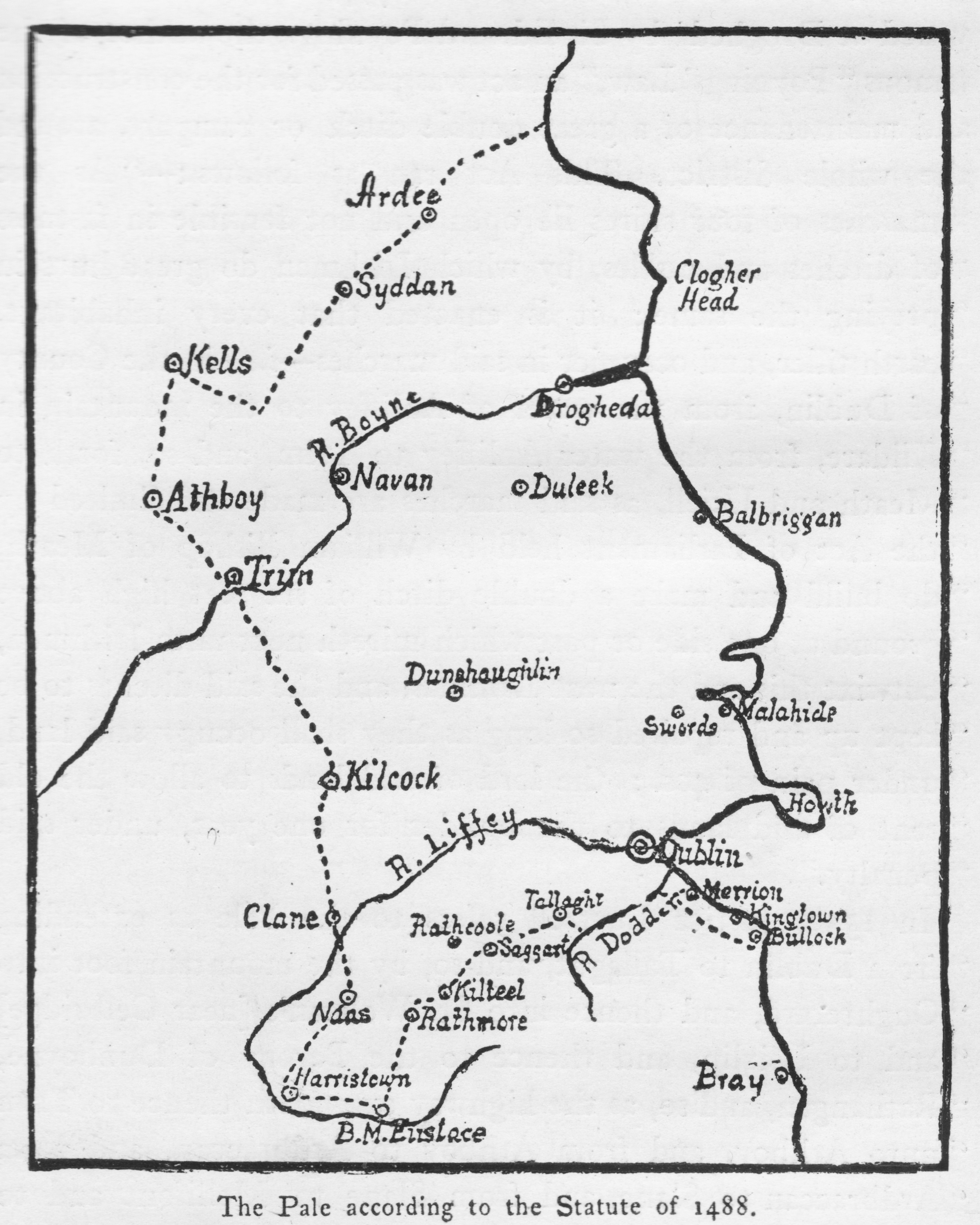 The Pale, or the English Pale, according to the Statute of 1488. A map of that area of Ireland commonly known as the Pale which, by the the 15th century, was under effective English colonial rule.